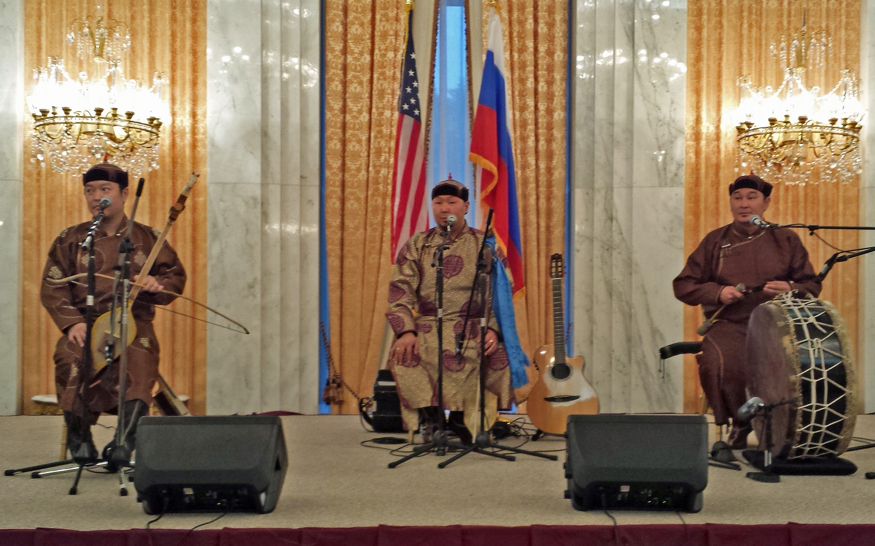 Tuvan group Alash Ensemble playing at the Russian Embassy April 25 2018